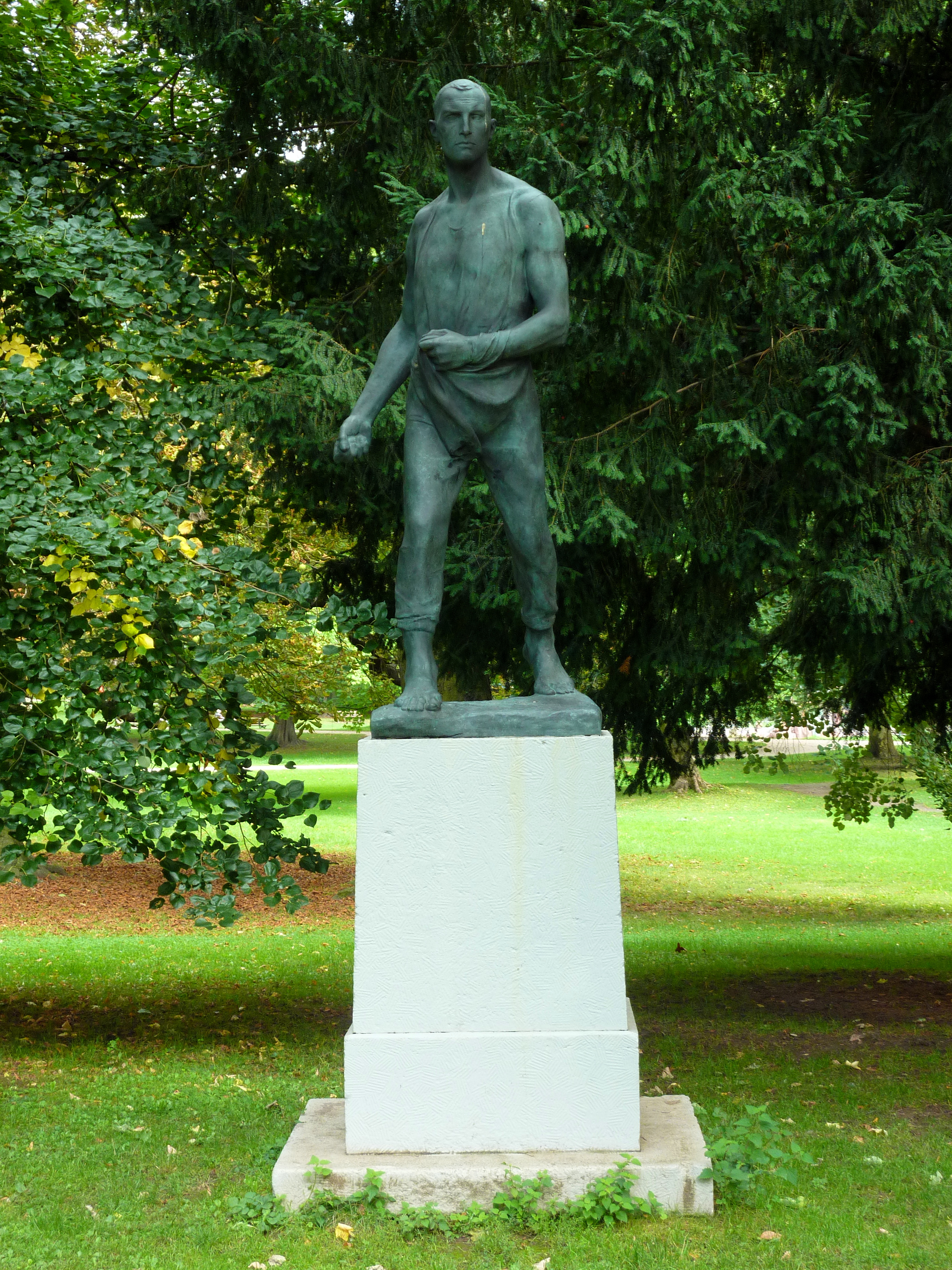 Frankfurt/M., Germany: Bronze sculpture Der Sämann (“The Sower Man”), by Belgian sculptor Constantin Meunier (1831–1905), in Günthersburgpark in the Nordend borough